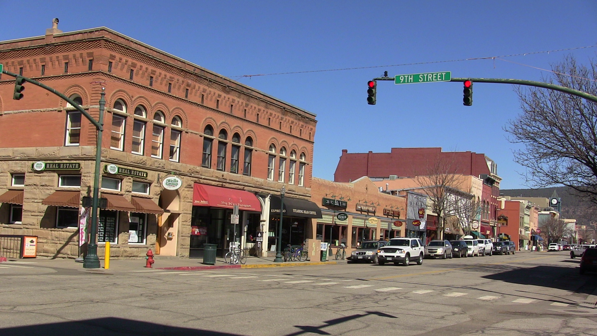 Blue winter skies cast a backdrop to downtown historic Durango.